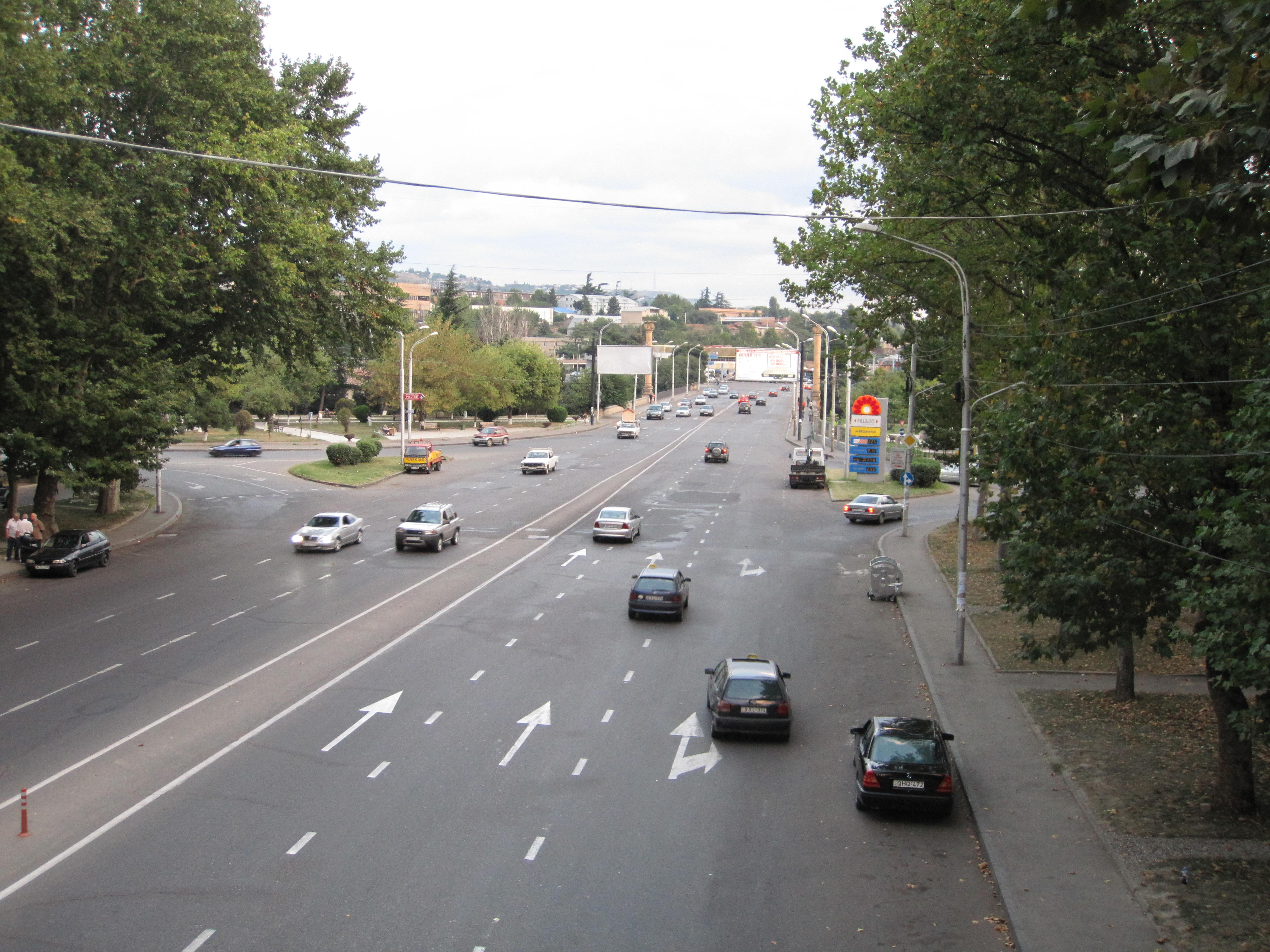 Robakidze Street in Digomi neighborhood, Tbilisi